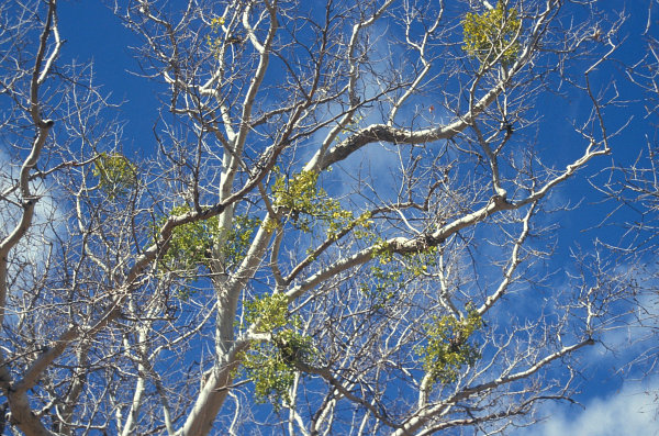 Phoradendron macrophyllum on Arizona sycamore. US Forest Service photo, no author or copyright noted.